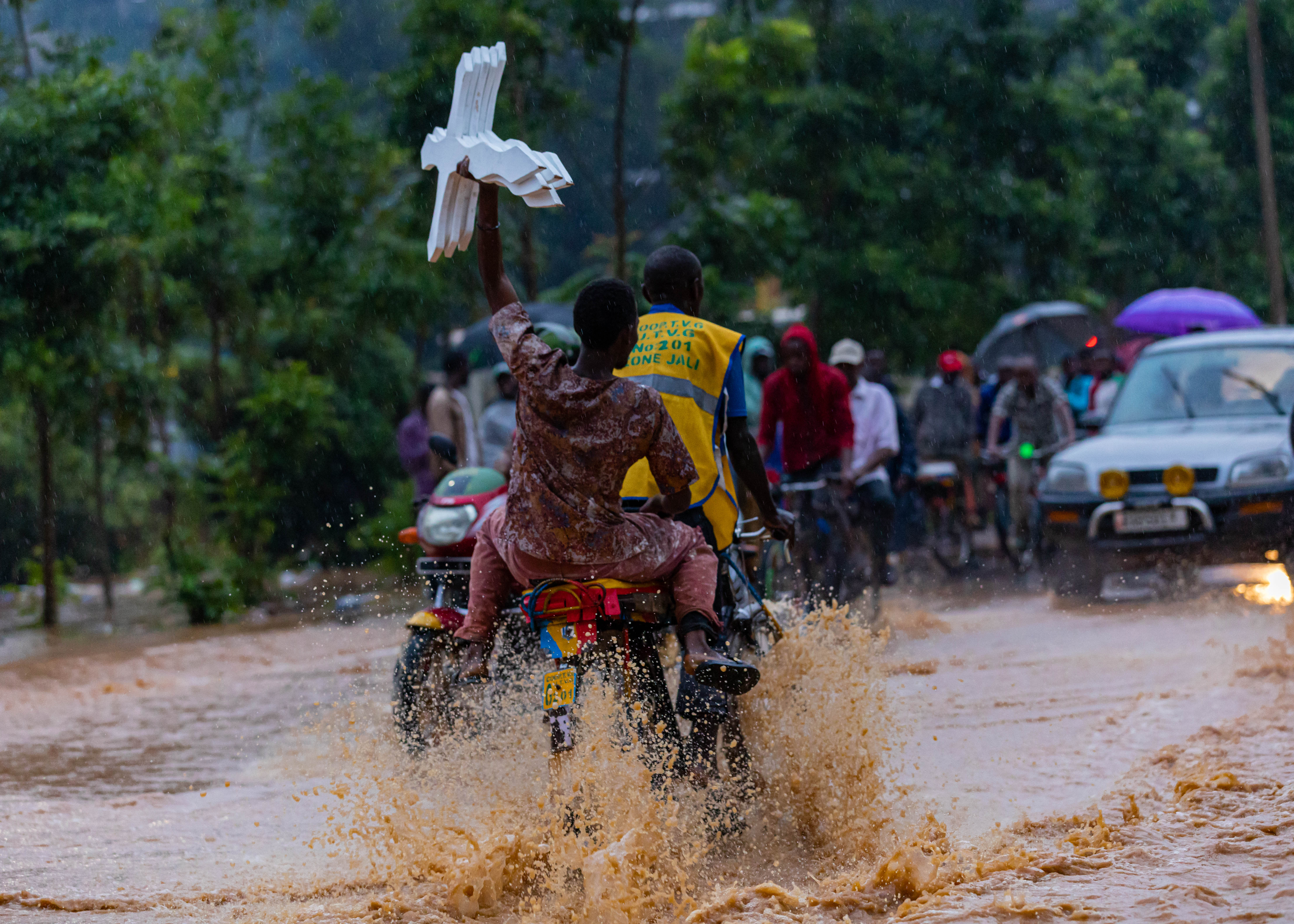 A bicycle rider carrying a passenger with crosses hustles his way through a flooded road in Kigali on 28 January 2020. Bicycles are a trivial means of transport in Rwanda. Emmanuel Kwizera This is an image with the theme "Africa on the Move or Transport" from: Rwanda